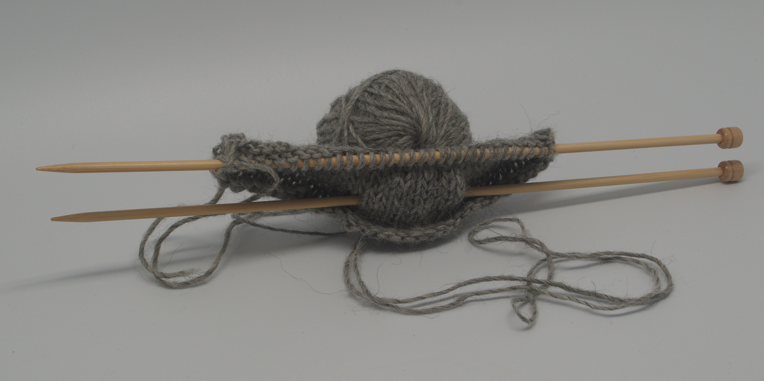 Tricot en cours